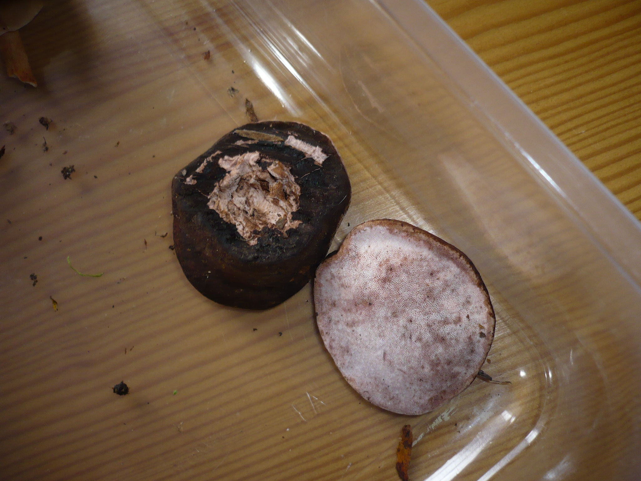 A fruit body of the fungus Genea hispidula Berk. ex Tul. Specimen collected in Zofinsky Prales nature reserve, Zofin, Bohemia, Czech Republic.